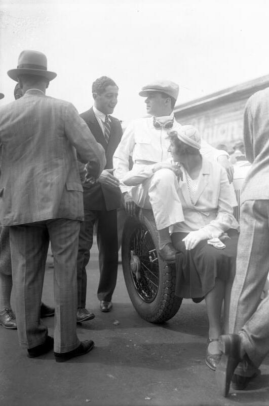 Rudolf Caracciola (sitting) with his with Charly before the 1931 Avusrennen